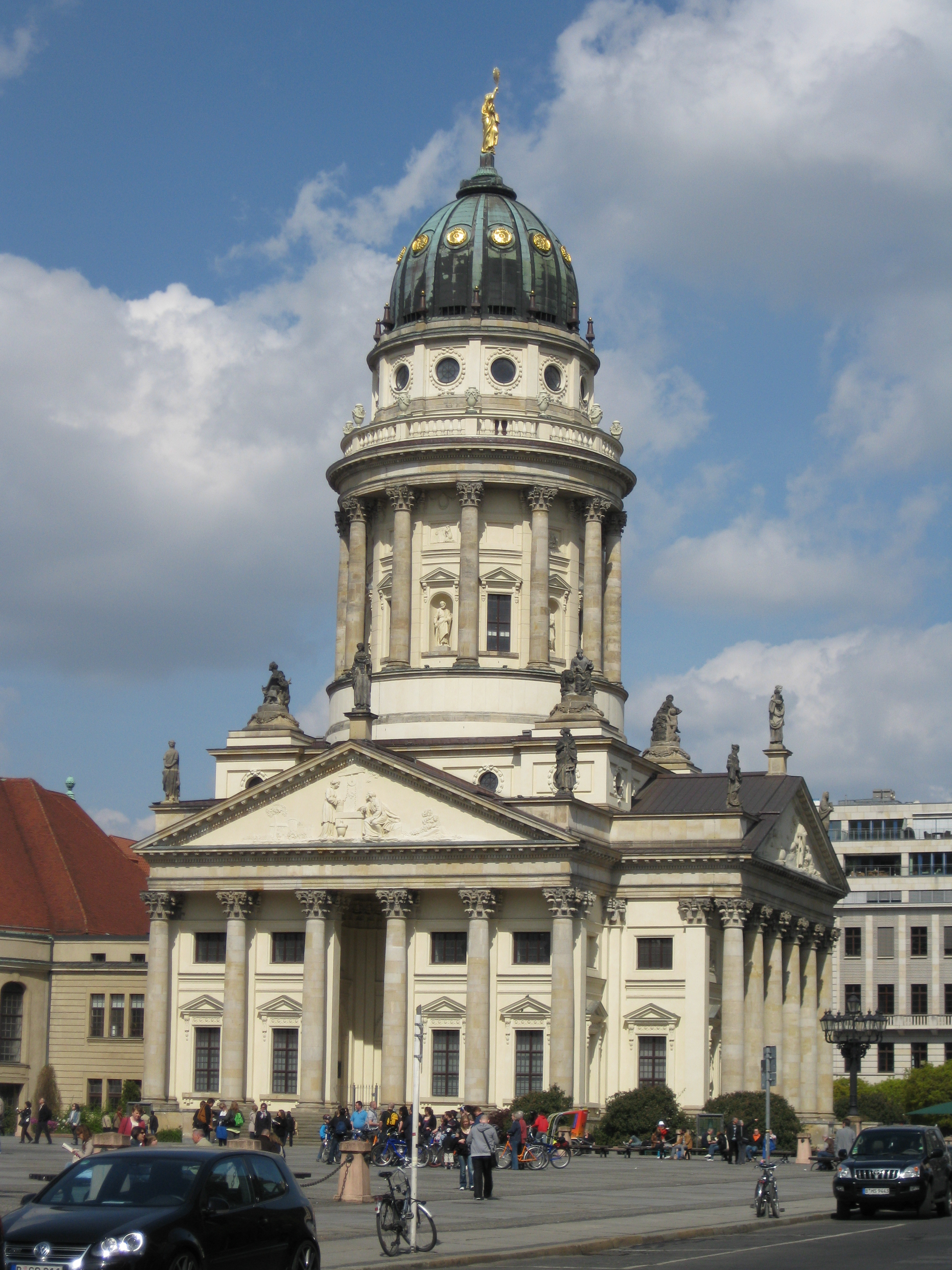 Around the Gendarmenmarkt, Berlin, Germany Französischer Dom